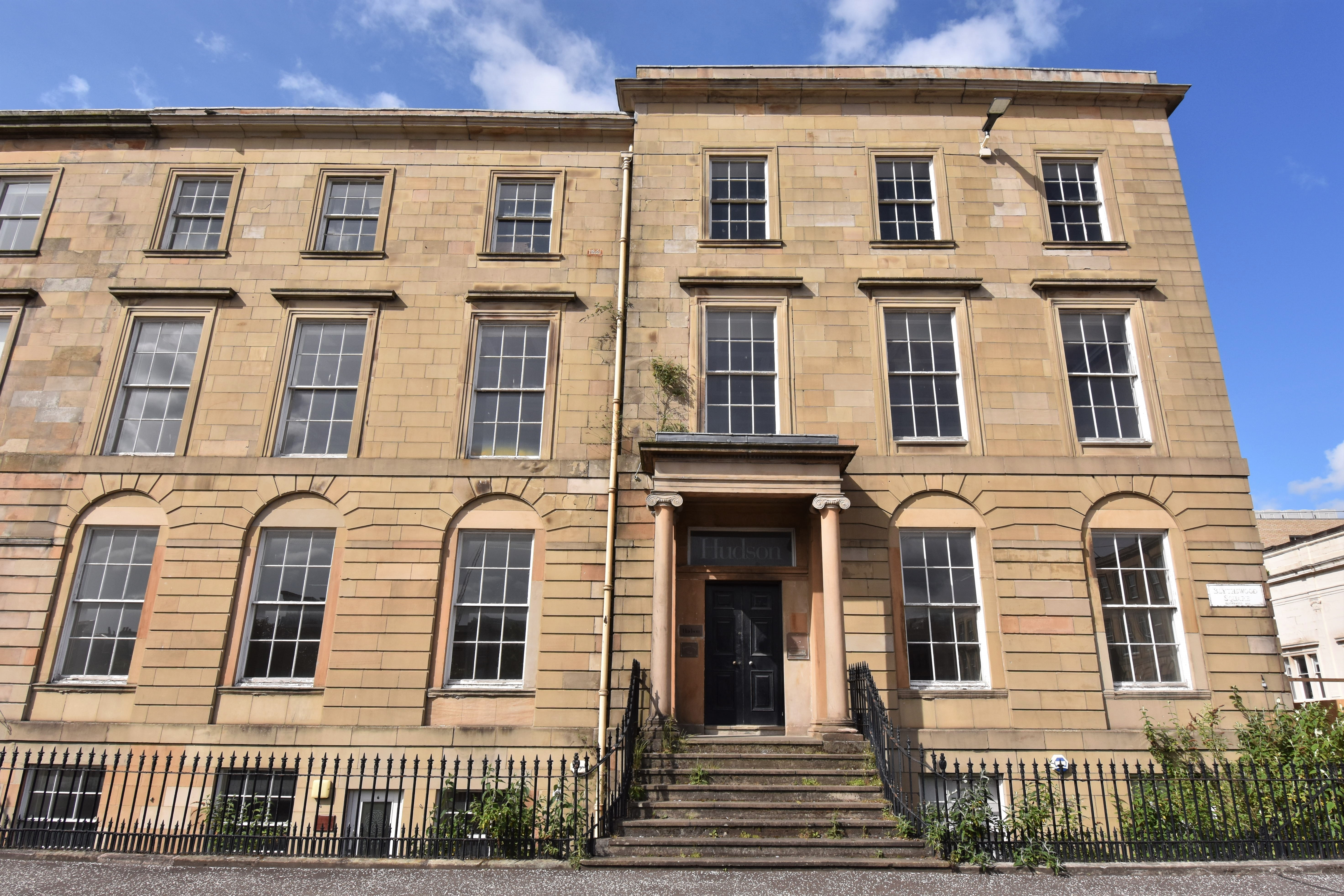 Glasgow. 6-7 Blythswood Square. Madeleine Smith's house. Classical three-storey and basement terrace block of three-bay houses, built around 1829. Architect: unknown. See: Williamson, Elizabeth; Riches, Anne; Higgs, Malcolm (1990): The Buildings of Scotland: Glasgow. Penguin Books. London